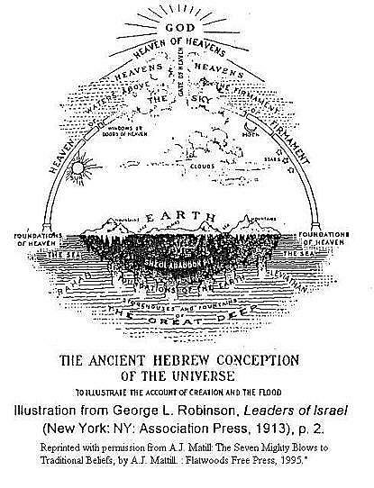 Illustration of the Biblical concept of the Universe, from the book "Leaders of Israel" (George L. Robinson, NY, Association Press, 1913)